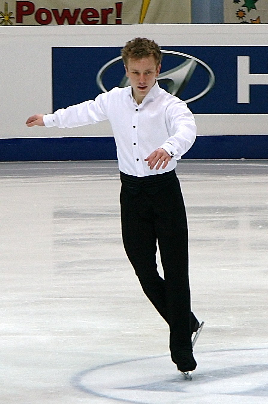 Ross Miner at the 2011 World Figure Skating Championships